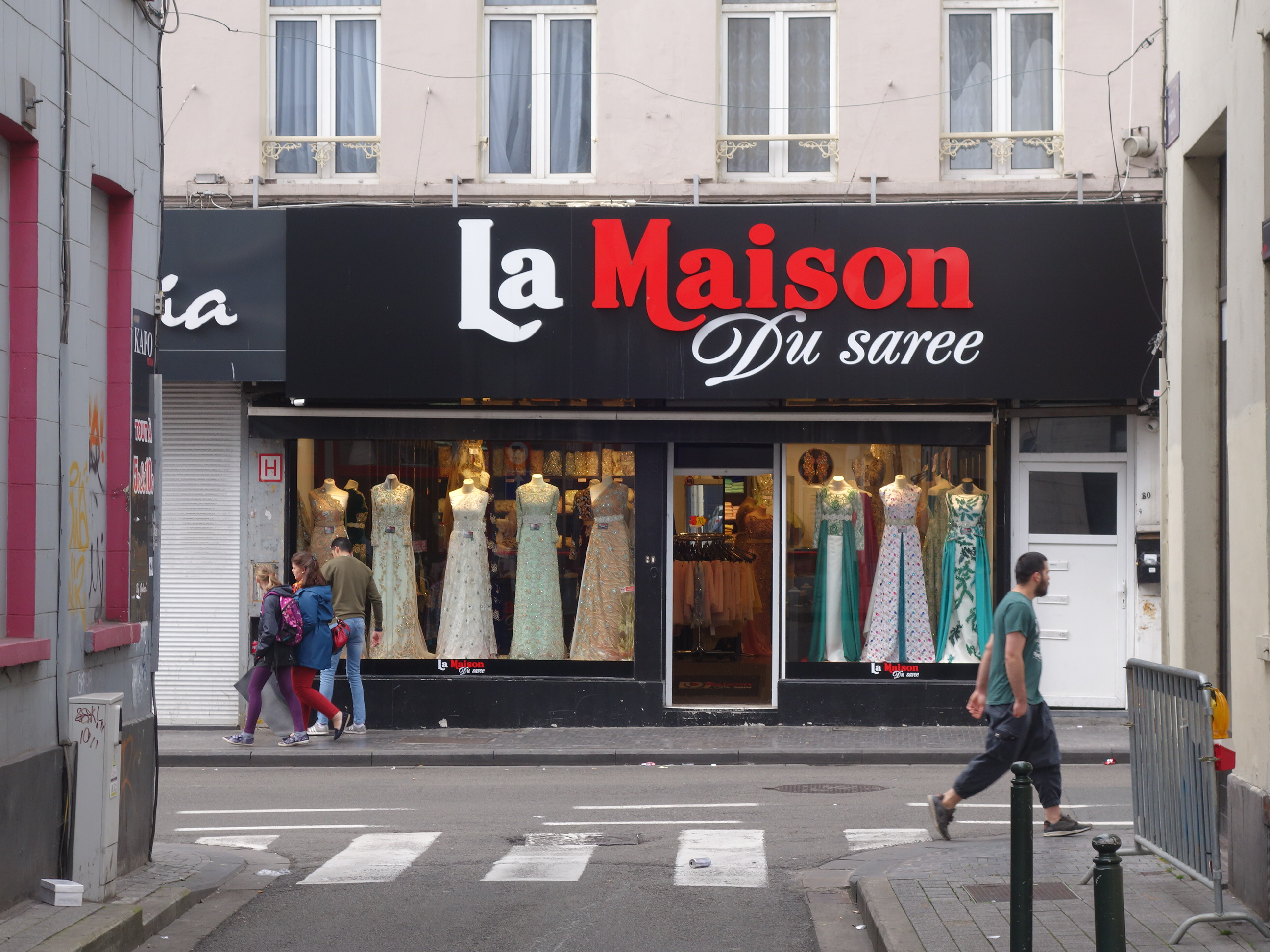 Shop in Gentsesteenweg (Molenbeek, Brussels)